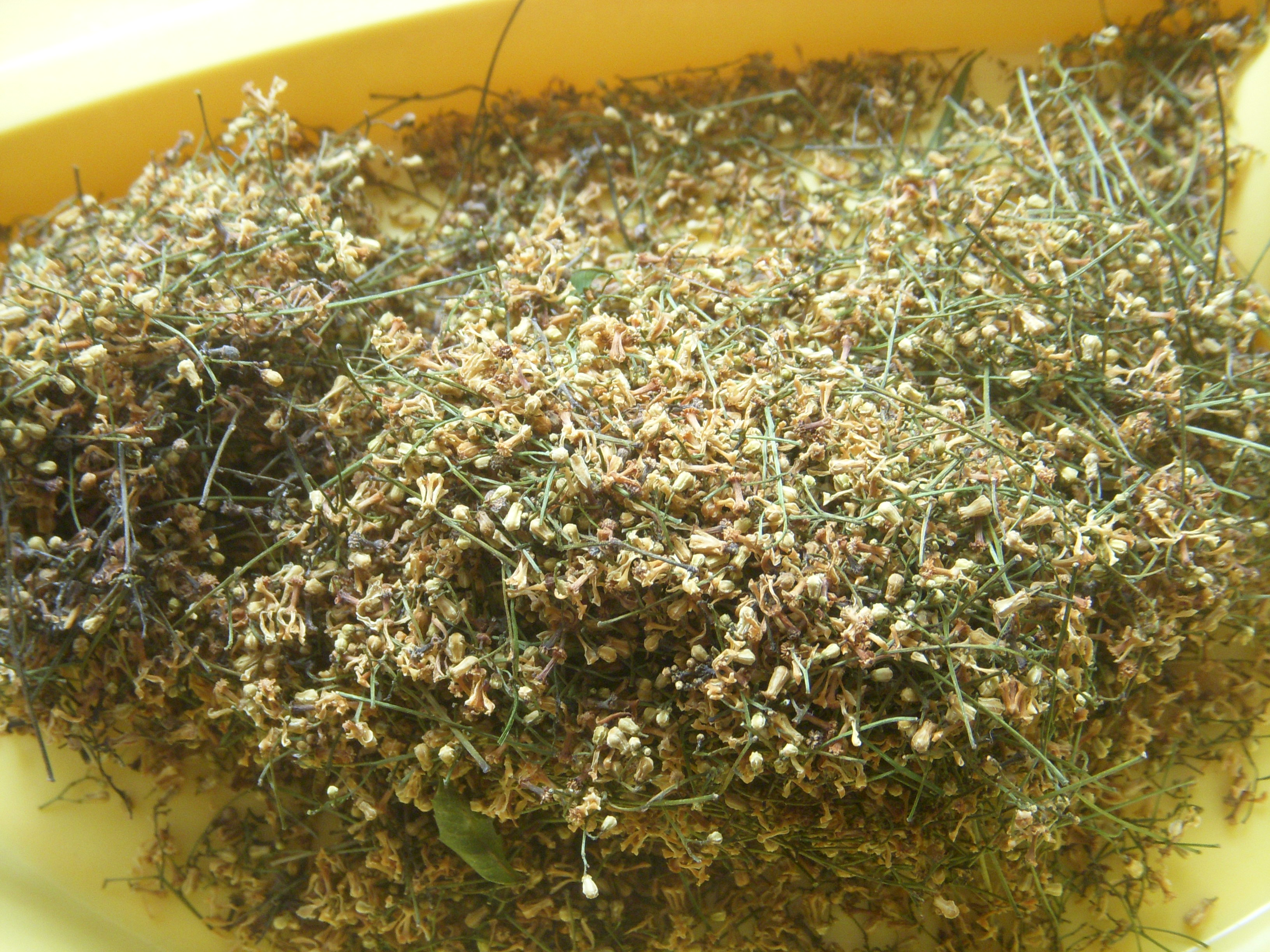 Dried flowers of neem, added while making Rasam or consumed in powdered form as a folk medicine for diabetes and worms.